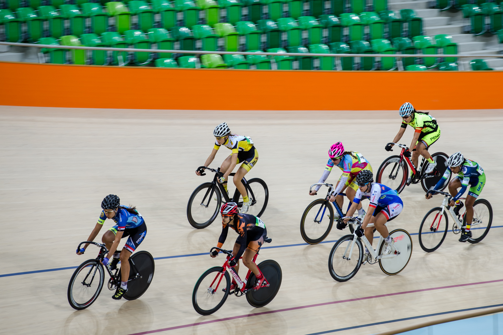 Rio Olympic Velodrome in Barra Olympic Park/ Cyclists from seven countries - Brazil, Switzerland, Australia, Russia, Japan, China and Hong Kong - tested the track.